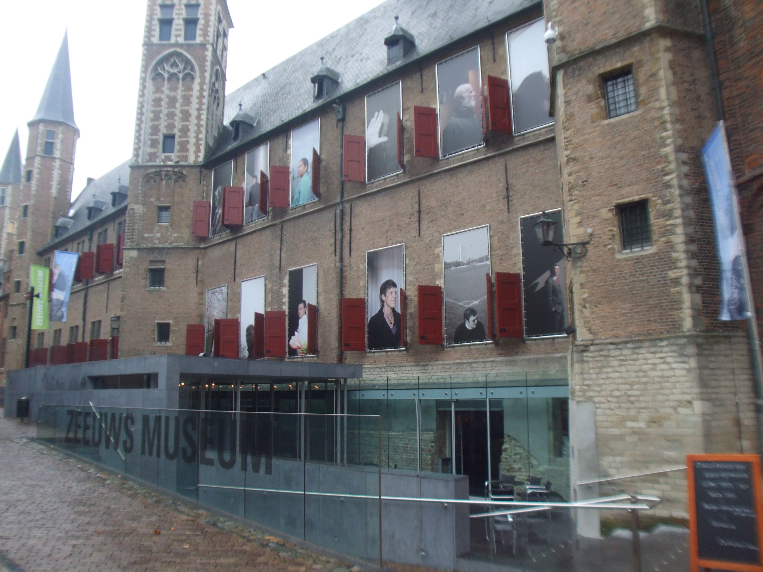 The Zeeuws Museum in Middelburg features the largest collection of Zeeland heritage in the world.